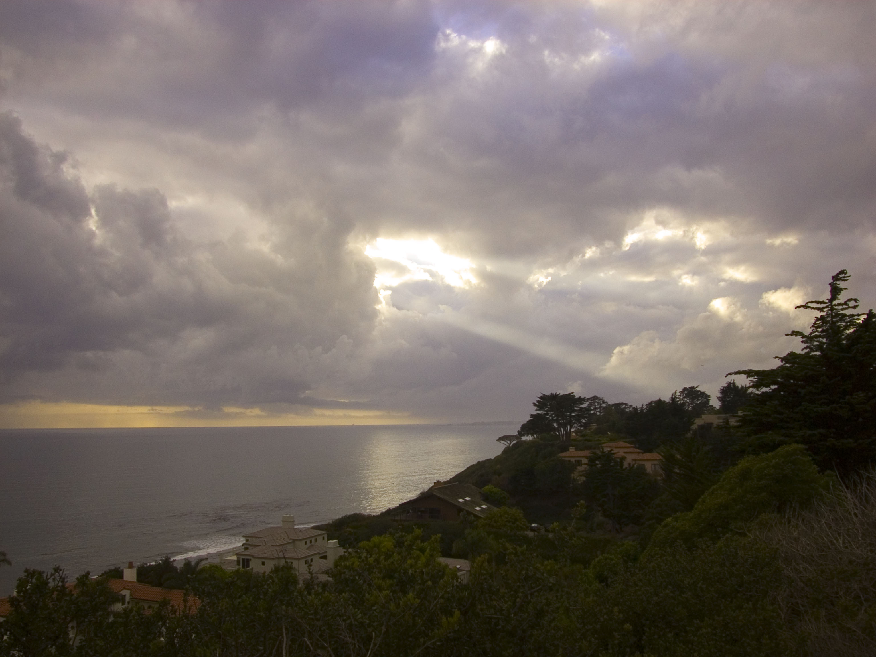 The top of the hills in Santa Barbara, CA looking over the ocean at sunset. The rain had just stopped. Equipment used is a Nikon Coolpix 5000 digital camera and Manfrotto monopod.